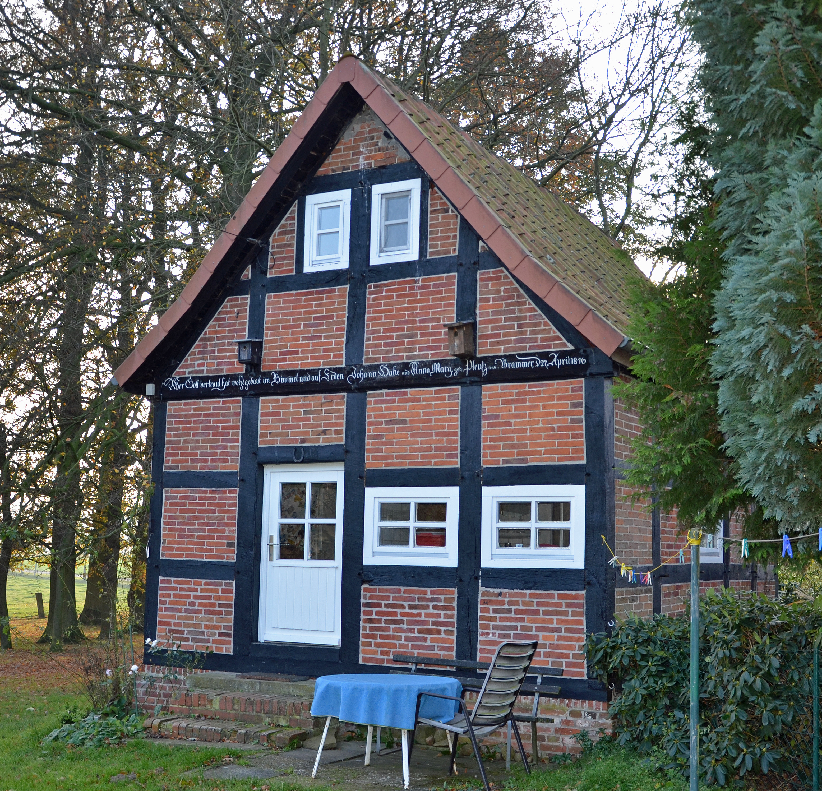 Cultural heritage monument in Bassum